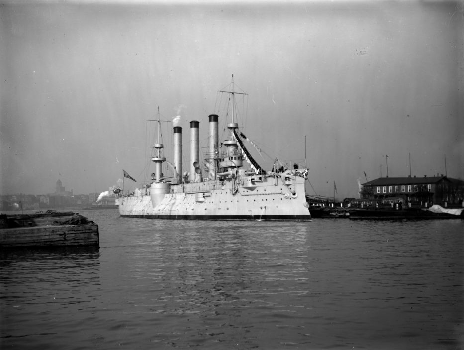 Title: U.S.S. Brooklyn Accession Number: 1974:0056:0016 Maker: William M. Vander Weyde (American 1871–1929) Medium: negative, gelatin on glass Dimensions: 6.5 × 8.5 in (16.5 × 21.6 cm) George Eastman House Native nameGeorge Eastman House International Museum of Photography and FilmLocationRochester, United States of AmericaCoordinates43° 09′ 08″ N, 77° 34′ 49″ W Established1949Website control : Q1507284 VIAF: 132694857 ISNI: 0000 0004 0459 1733 ULAN: 500276536 LCCN: n79086438 NLA: 36554246 WorldCat